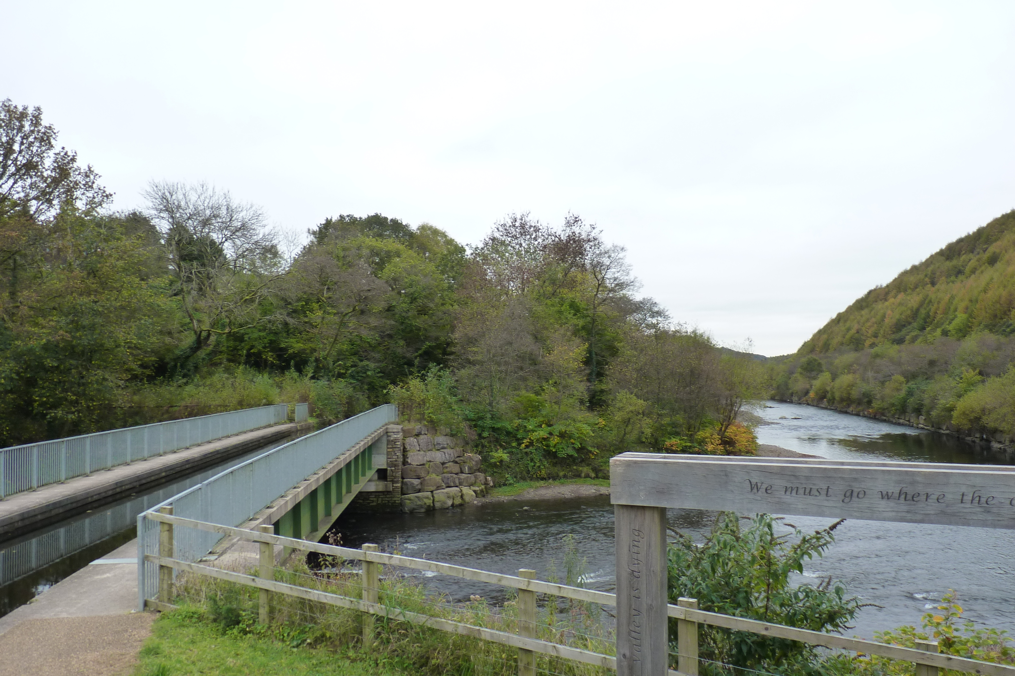 The Aquaduct carries the Neath Canal over the river Neath at Ynysbwllog, south of Resolven. The original aqueduct collapsed in 1979, and pipes carried the water across until the present steel aqueduct was completed in 2008, the largest single span aqueduct in the UK.